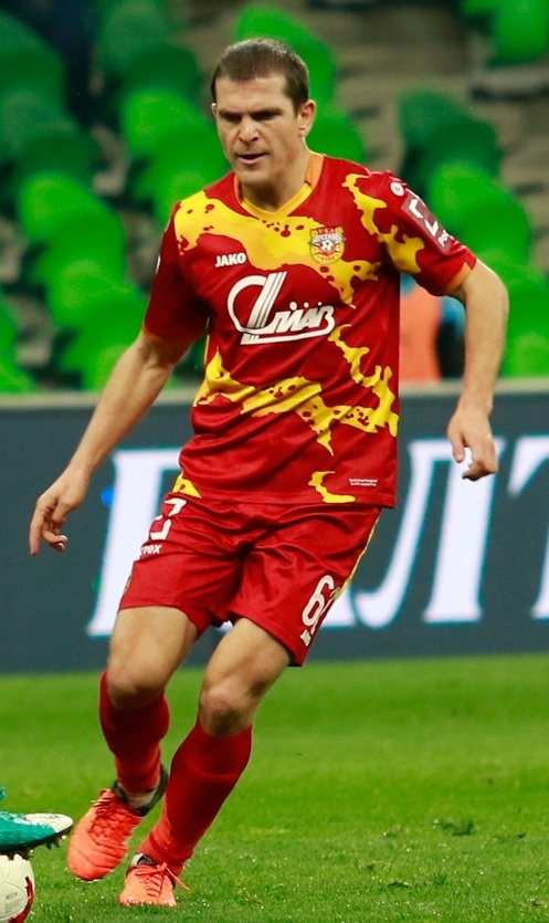 Alexandru Bourceanu with FC Arsenal Tula in a game against FC Krasnodar.